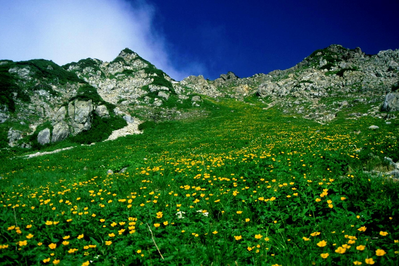 Mount Kasa and Alpine plant (Trollius japonicus) seen from Shakushidairain of Mount Kasa, in Hida Mountains, Gifu prefecture, Japan.